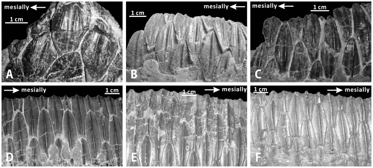 Comparison of the primary ridges of the tooth crowns in the dentary dental batteries of some hadrosauroid species (all dental batteries in lingual view). (A) Equijubus normani (IVPP V12534). (B) Probactrosaurus gobiensis (PIN 2232/42-1). (C) Bactrosaurus johnsoni (AMNH 6553). (D) Parasaurolophus tubicen (NMMNH P-25100). (E) Edmontosaurus regalis (CMN 2289). (F) Brachylophosaurus canadensis (CMN 8893).